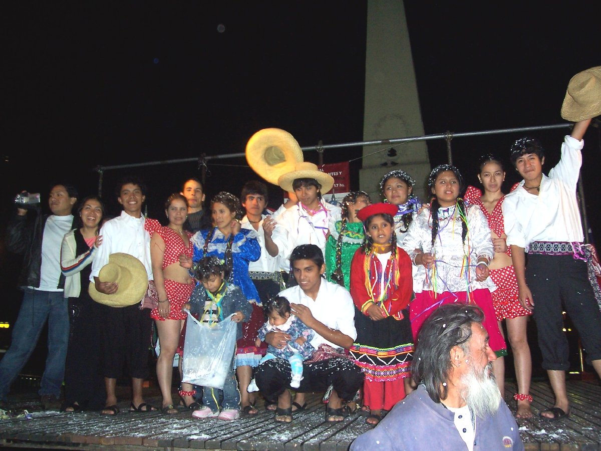 Folk Celebration during the meeting of the 1st Court of Migrant Women. Plaza de Mayo, Buenos Aires, Argentina